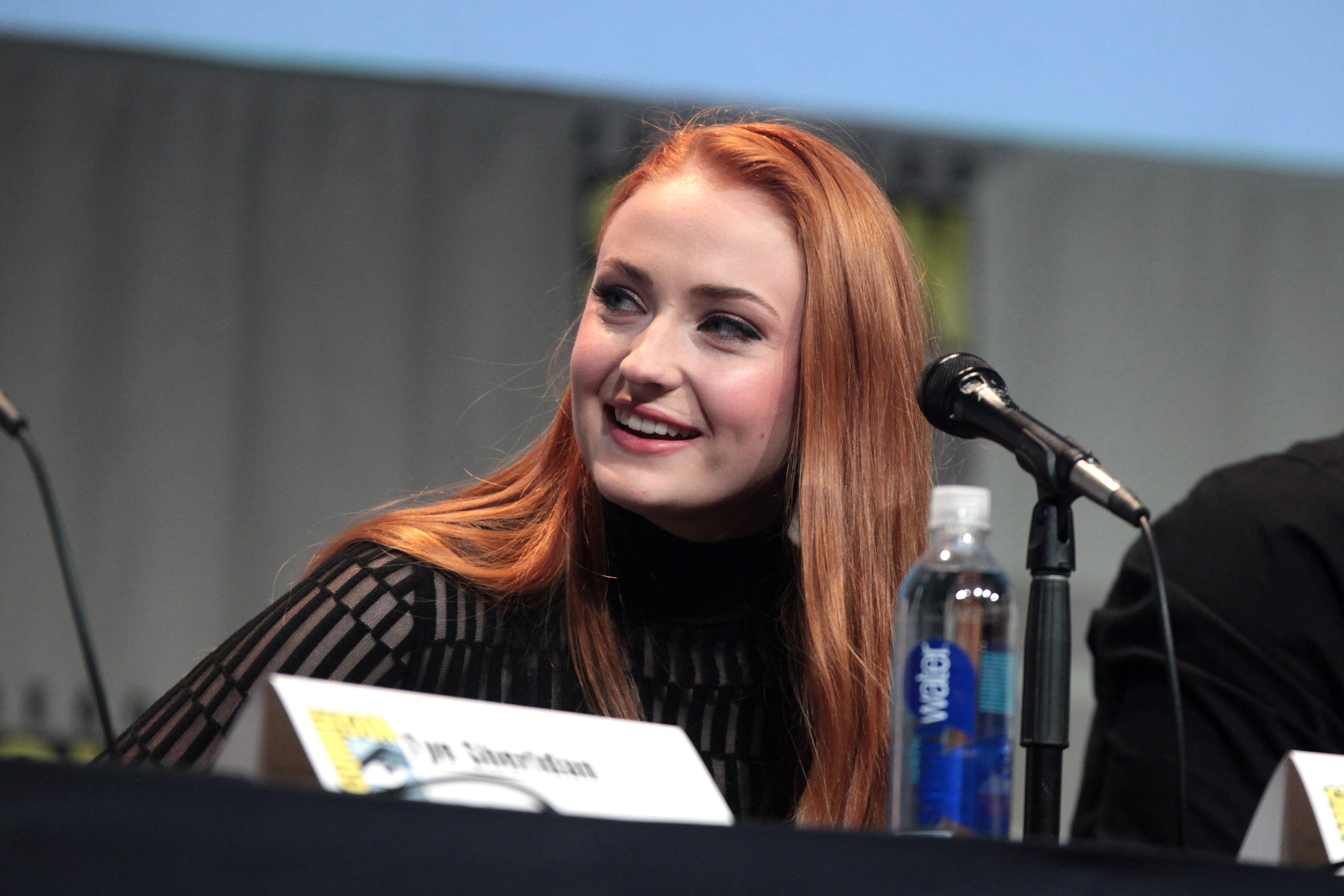 Sophie Turner speaking at the 2015 San Diego Comic Con International, for "X-Men: Apocalypse", at the San Diego Convention Center in San Diego, California.